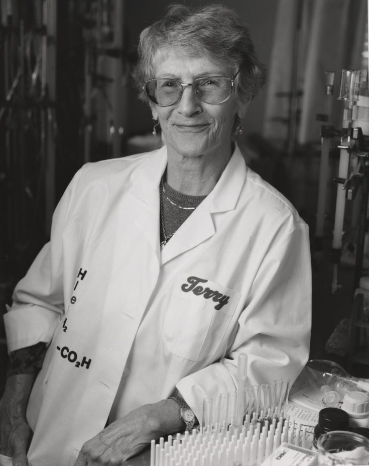 Thressa Stadtman in her lab coat at the National Institutes of Health.